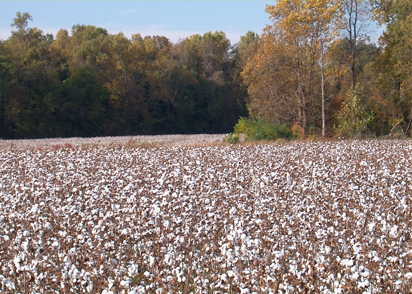 A cotton field in early November in Halifax County, North Carolina.